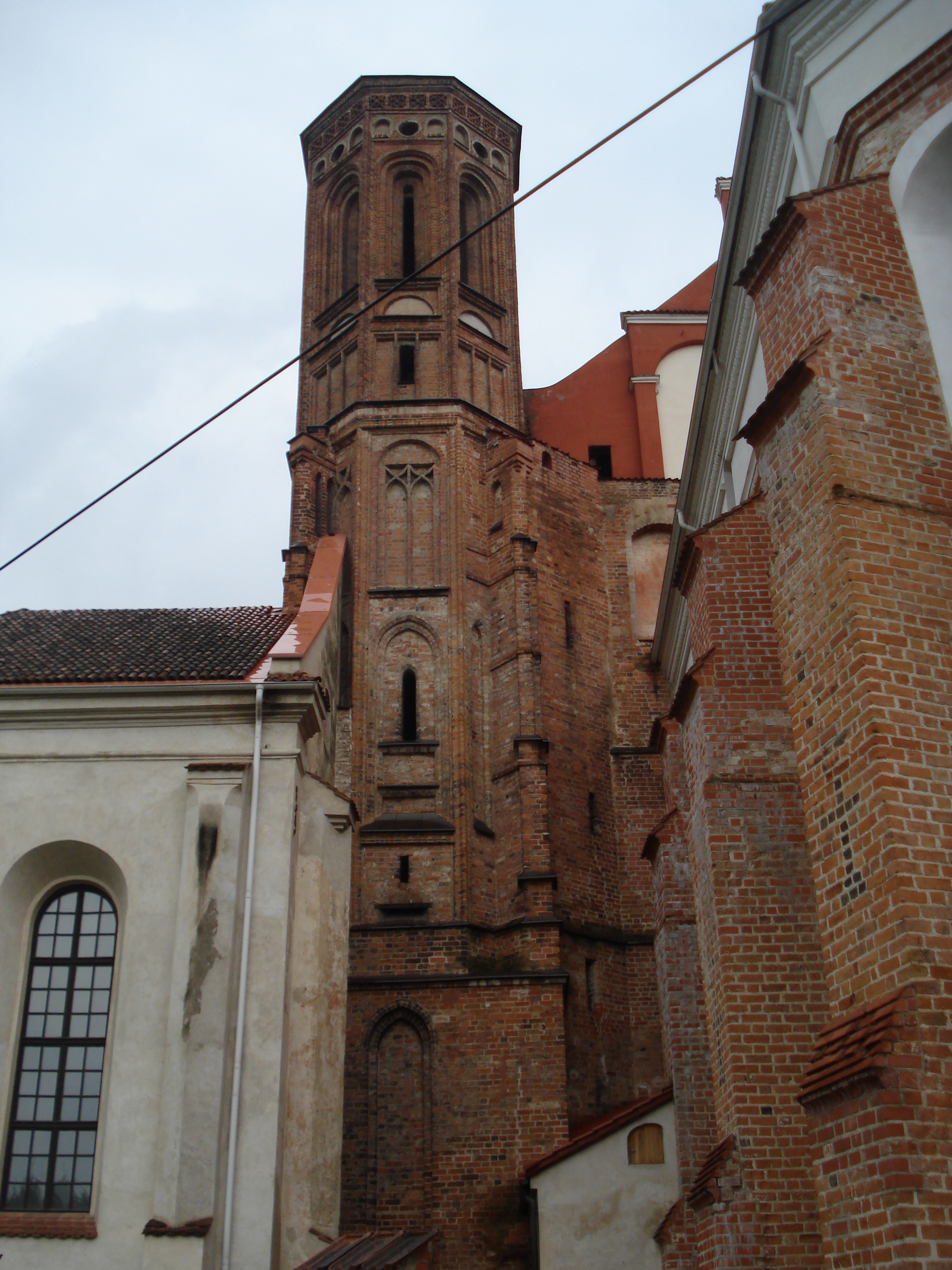 The tower of the Church of St. Francis and St. Bernardino in Vilnius. Maironio g. 10